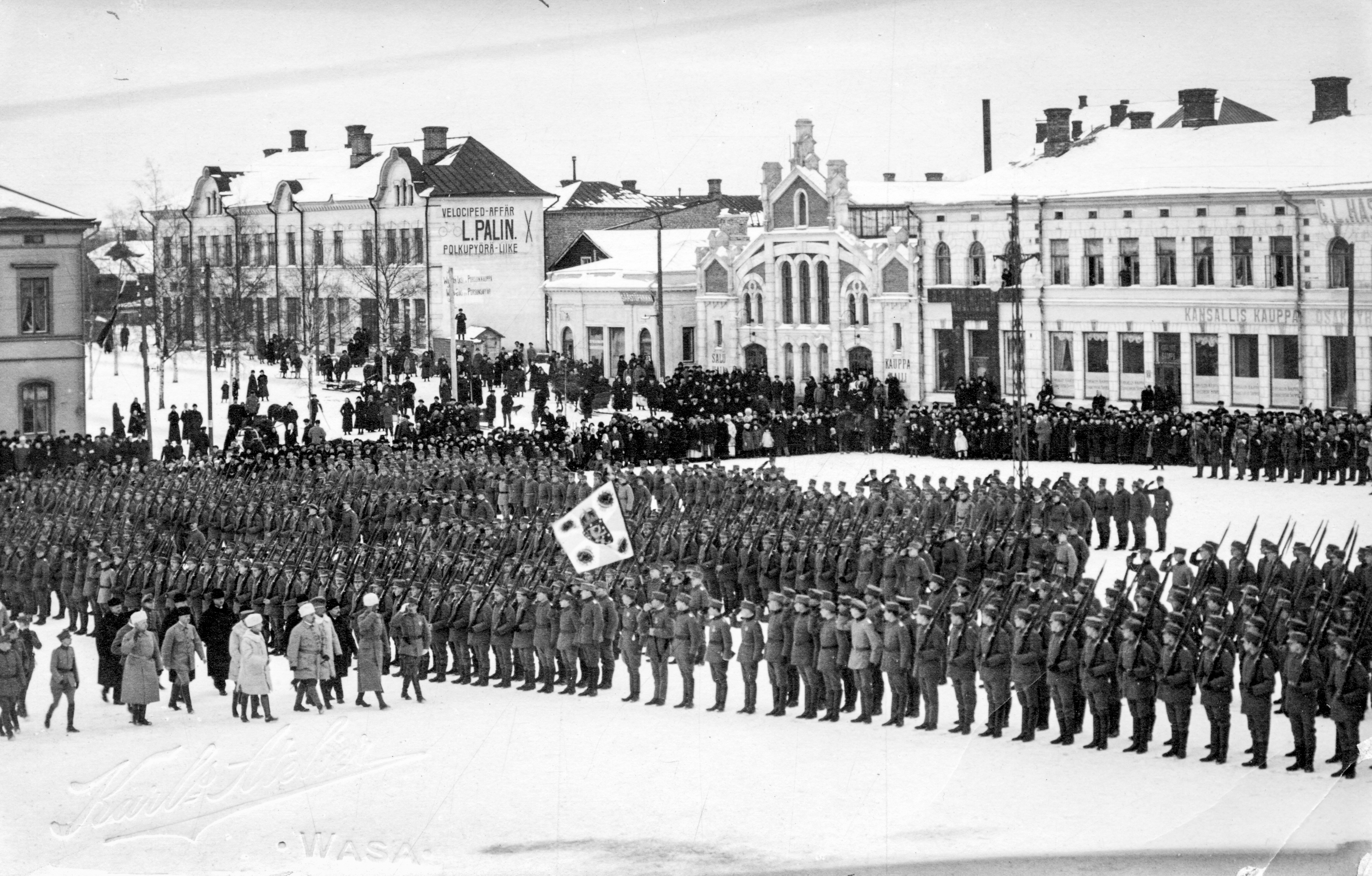 A parade by Finnish Jägers at the Vaasa town square on 26 February 1918